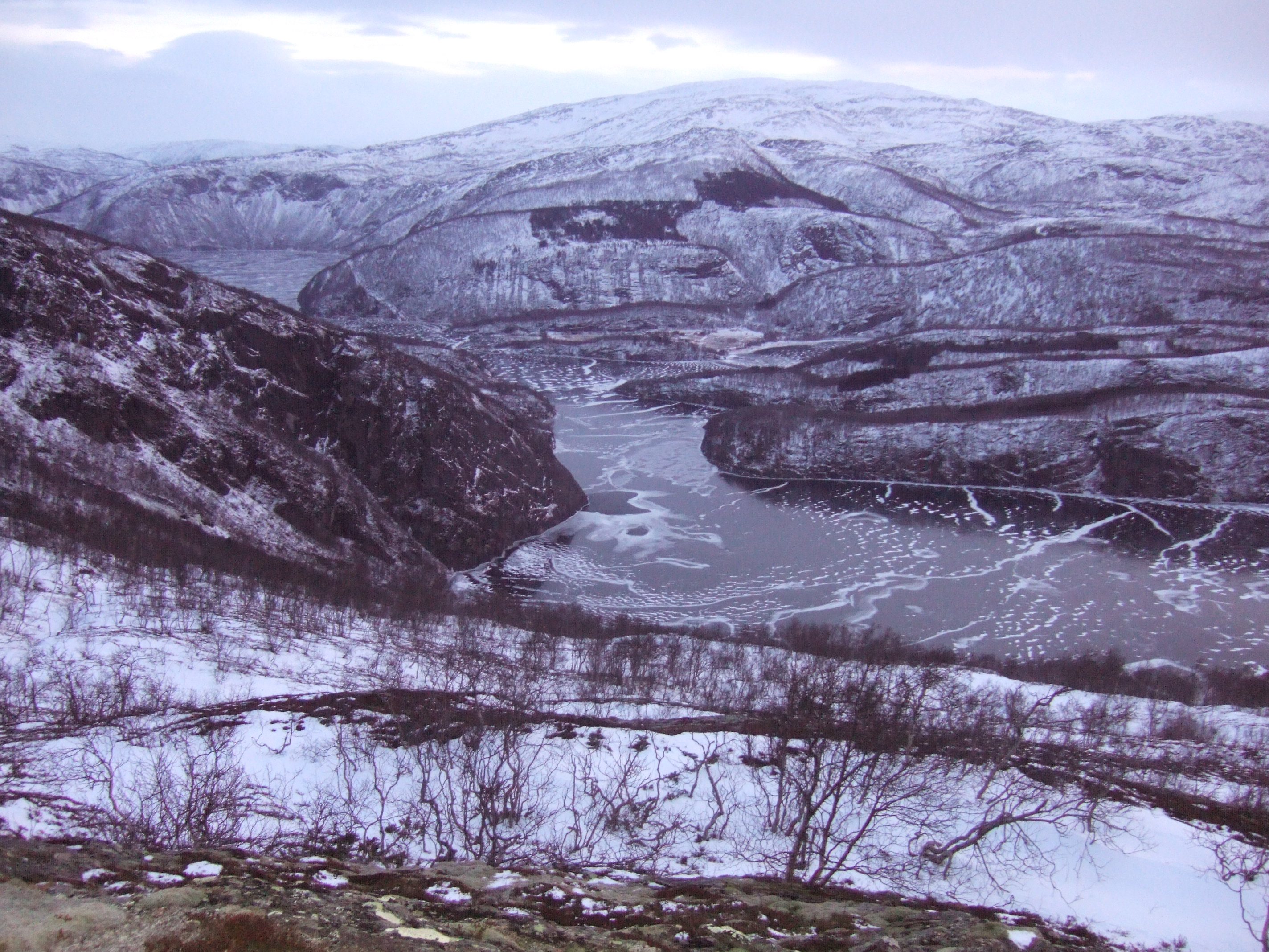 Lake Øvrevatnet in Fauske, Nordland, Norway